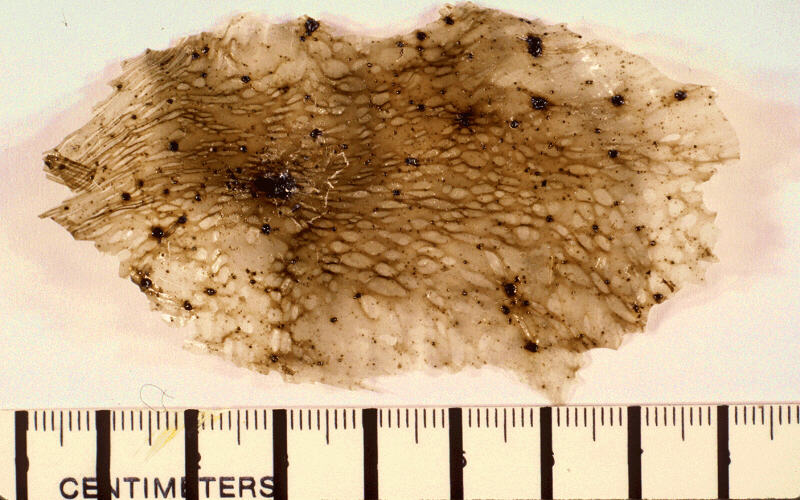 Limu o Pele formed by Kilauea volcano, Hawaii, as lava entered the Pacific Ocean.